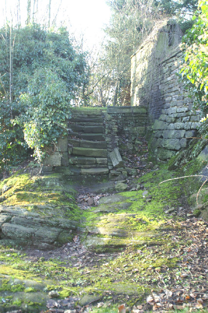 Ancient steps. These steps are very prominent beside the road into Mawdesley Village. They lead to the building in the next view.